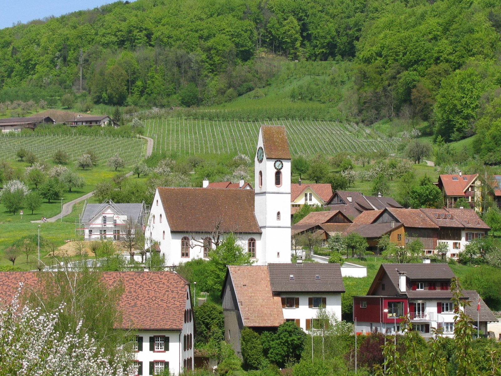 Reformed Church of Maisprach